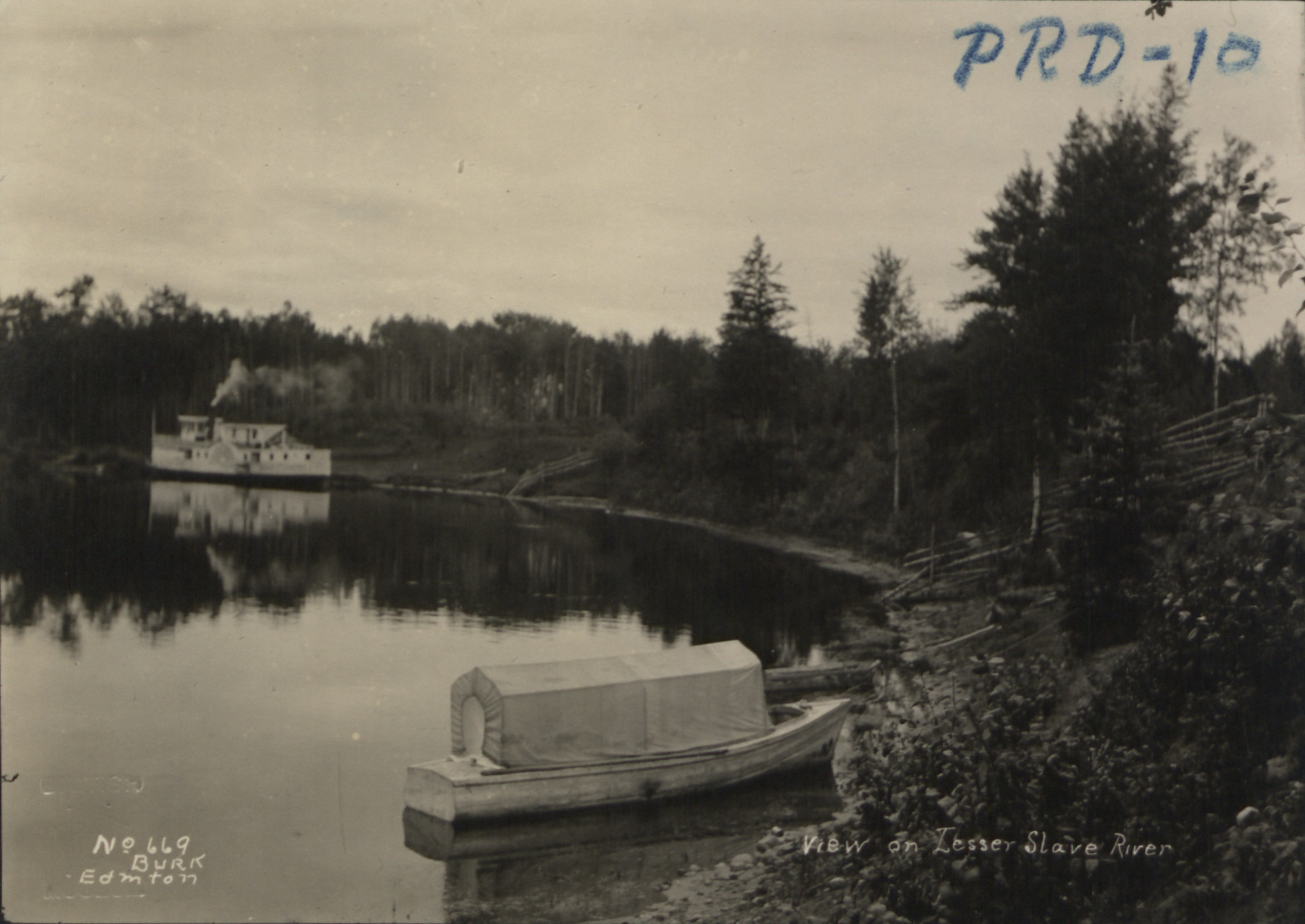 Original caption: “View of Lesser Slave River.”